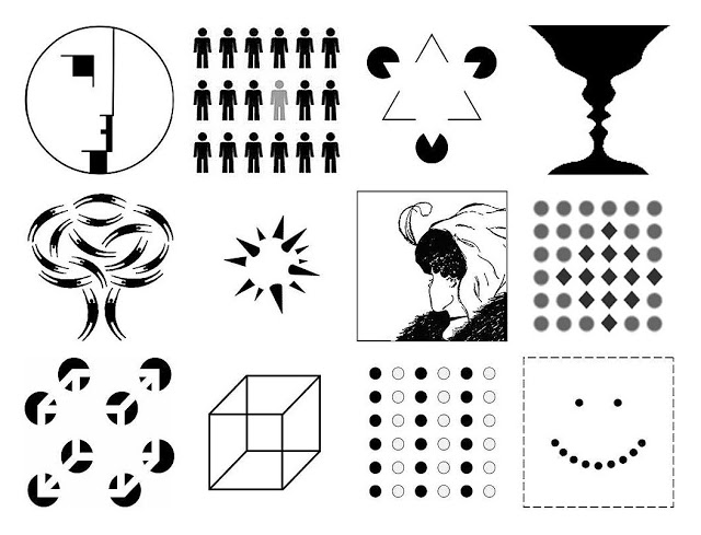 Gestalt Theory. Composition made of 12 figures involving the various principles of the Gestalt.